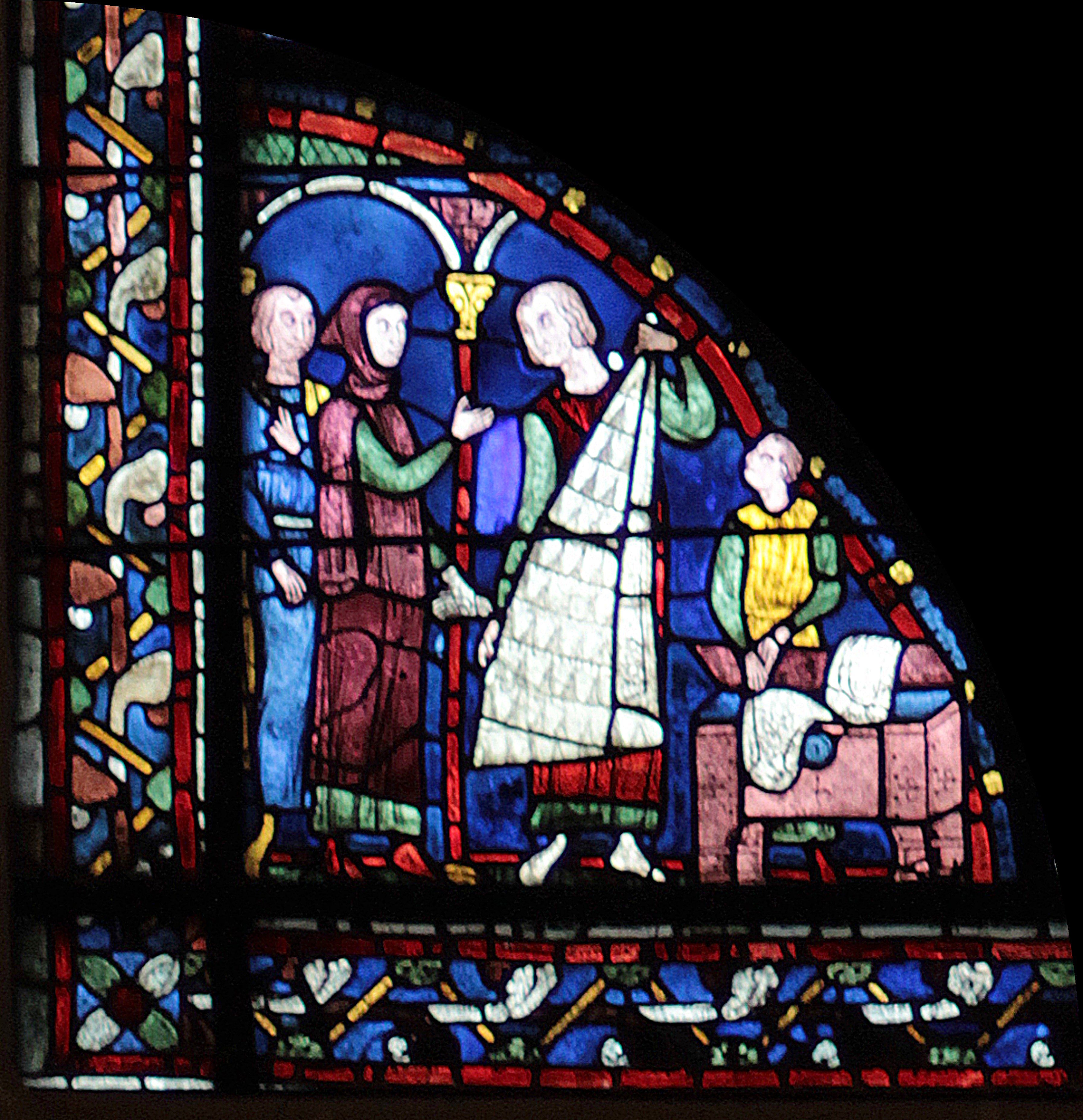 The Life of Saint James the Greater (ambulatory, bay 5).